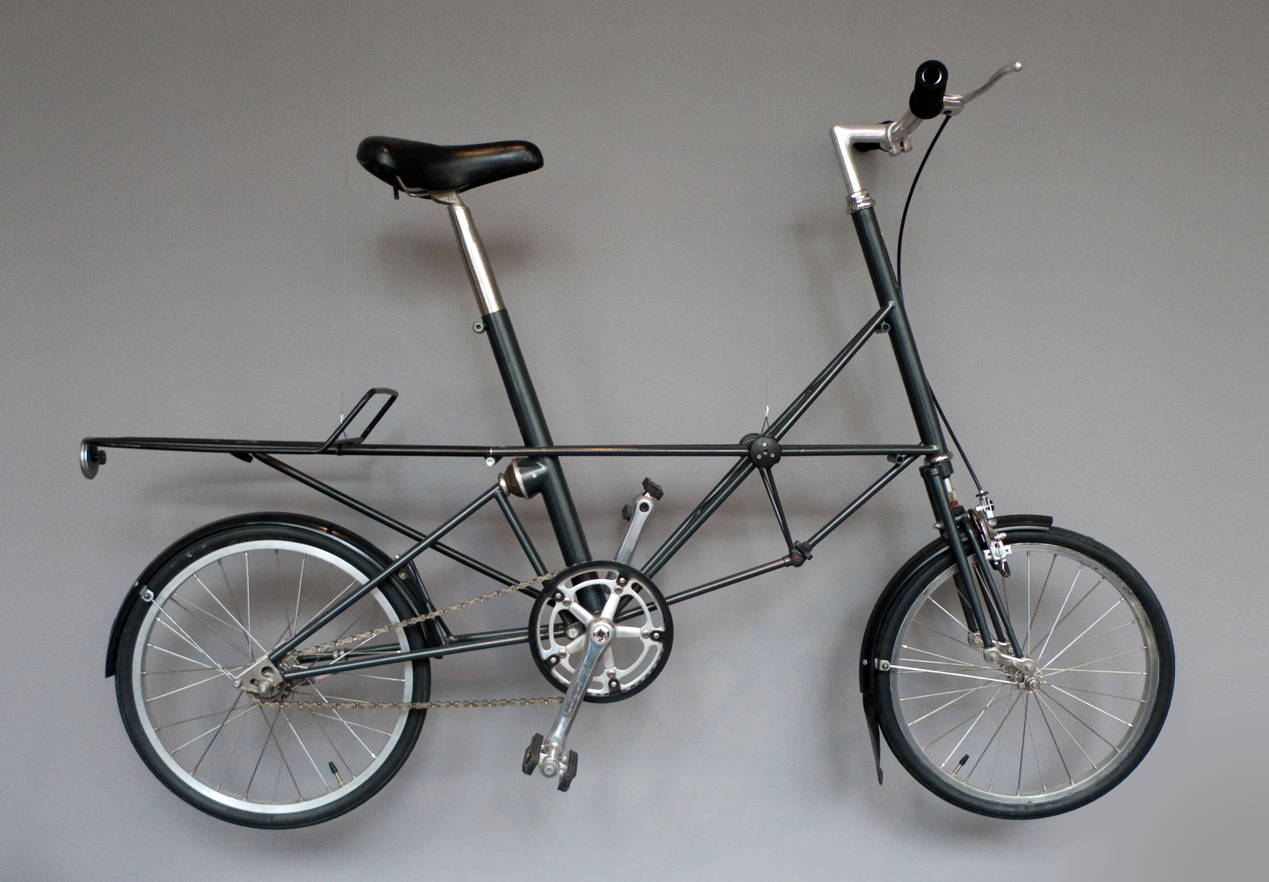 Moulton @ the MoMA